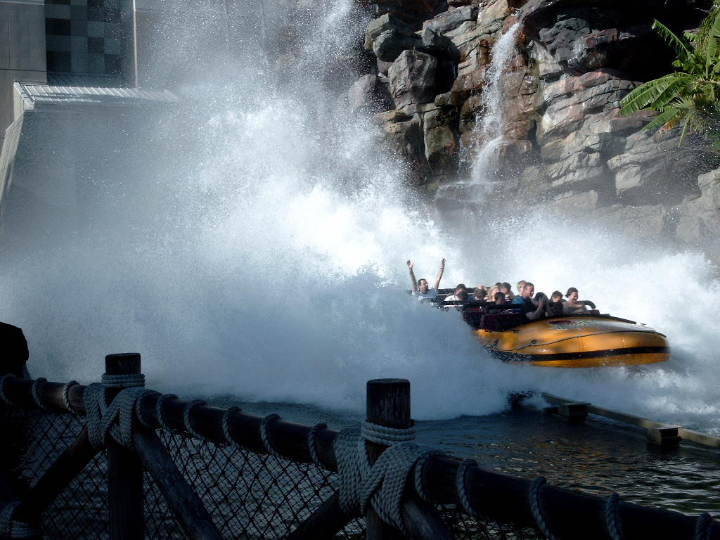 Jurassic Park River Adventure, Islands of Adventure